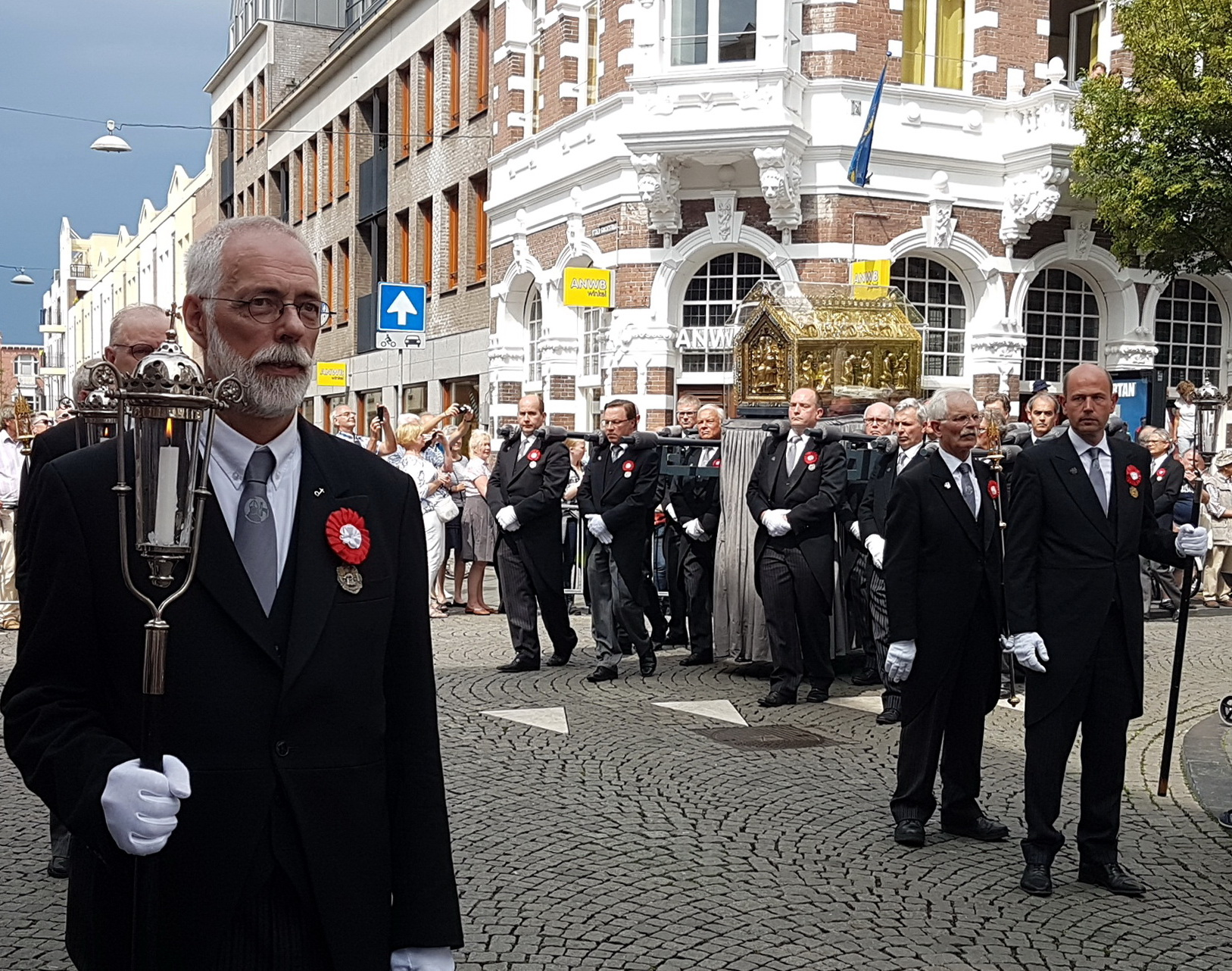 Participants in a historic religious procession during the 2018 Heiligdomsvaart (Relics Pilgrimage) in Maastricht, Netherlands. The history of this seven-yearly catholic pilgrimage goes back to the Middle Ages. The first 'modern' version took place in 1874. On both Sundays of the 10-day festival, a procession is held in which the main relics and other devotional objects are exhibited. This photo was taken on the corner of Wycker Brugstraat and Wycker Grachtstraat during the (first) procession on Sunday 27 May 2018. This particular group forms the apogee of the procession: the Noodkist or reliquary chest of Saint Servatius, a 12th-century masterpiece of Mosan art containing the relics of the city's patron saint.